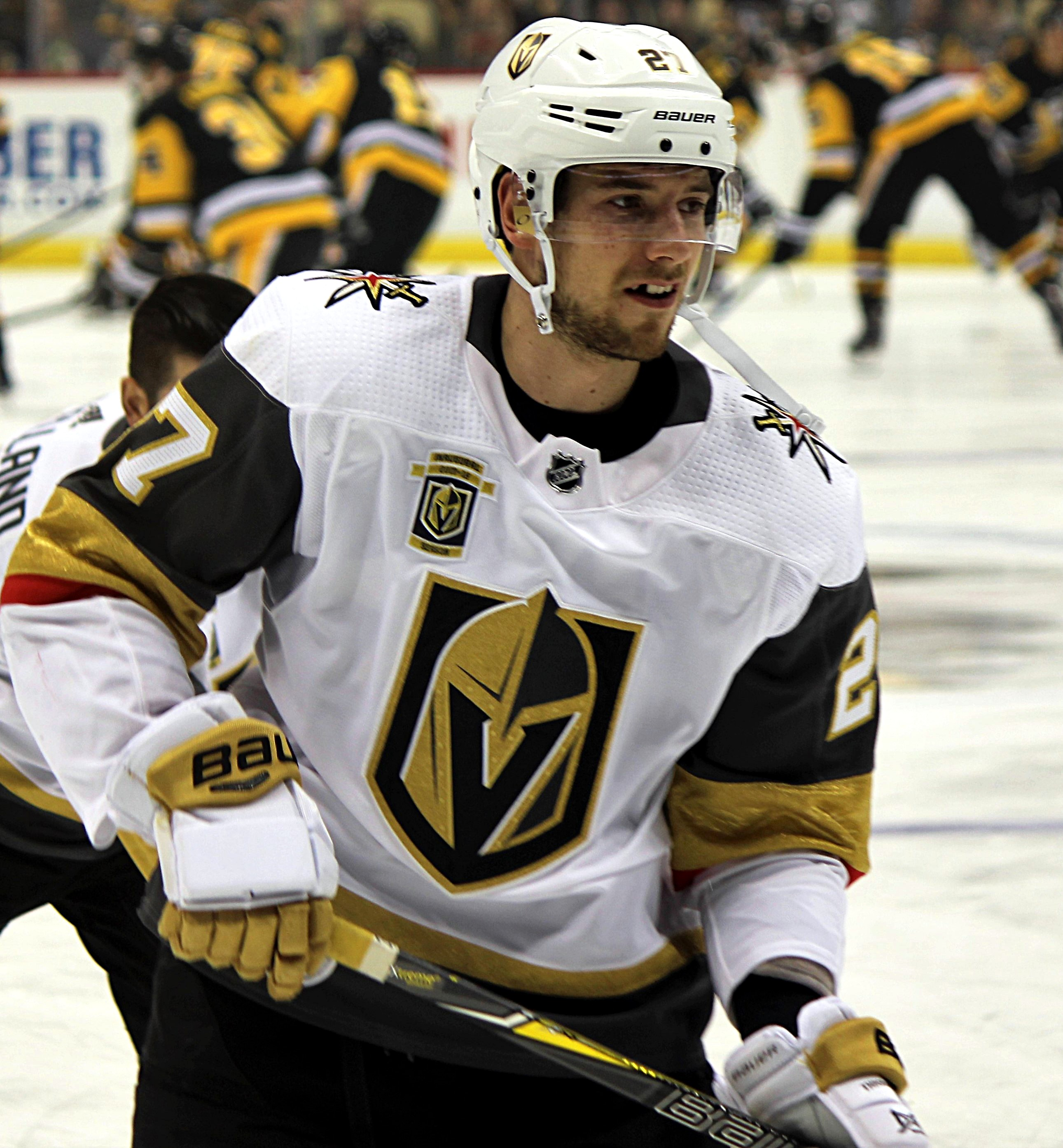 Vegas Golden Knights forward Shea Theodore during a game against the Pittsburgh Penguins, February 6, 2018, at PPG Paints Arena in Pittsburgh, PA.